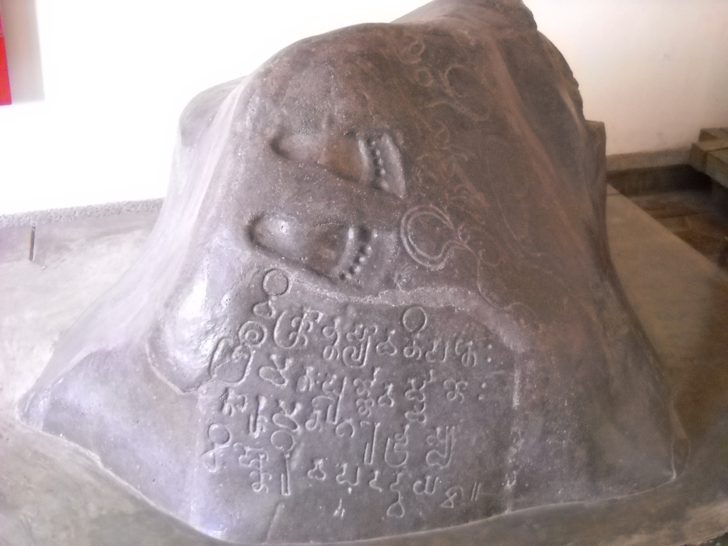 Ciaruteun Stele, History Museum of Jakarta, Indonesia.